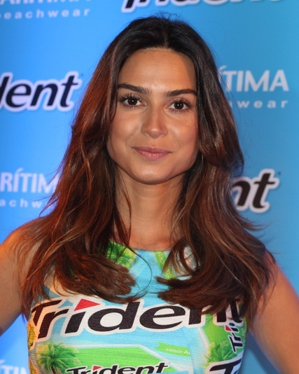 Brazilian actress and model Thaila Ayala.